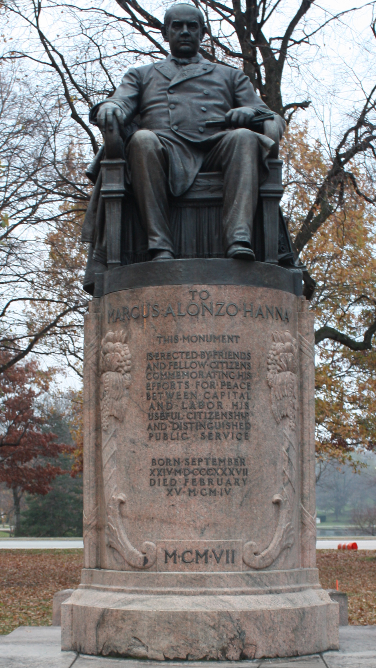 Statue of Mark Hanna by Augustus Saint-Gaudens, University Circle, Cleveland OH. Dedicated 1908, and thus in the public domain, and Saint-Gaudens has been dead more than 70 years.